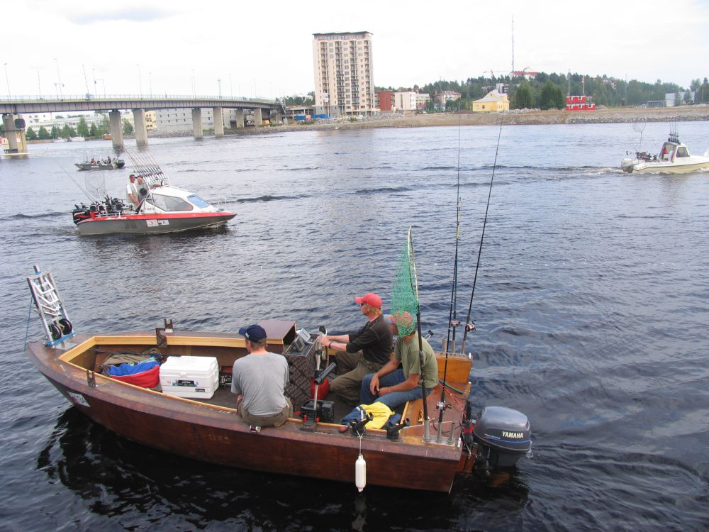 Joensuu Pielisjoki trolling Finnish championships